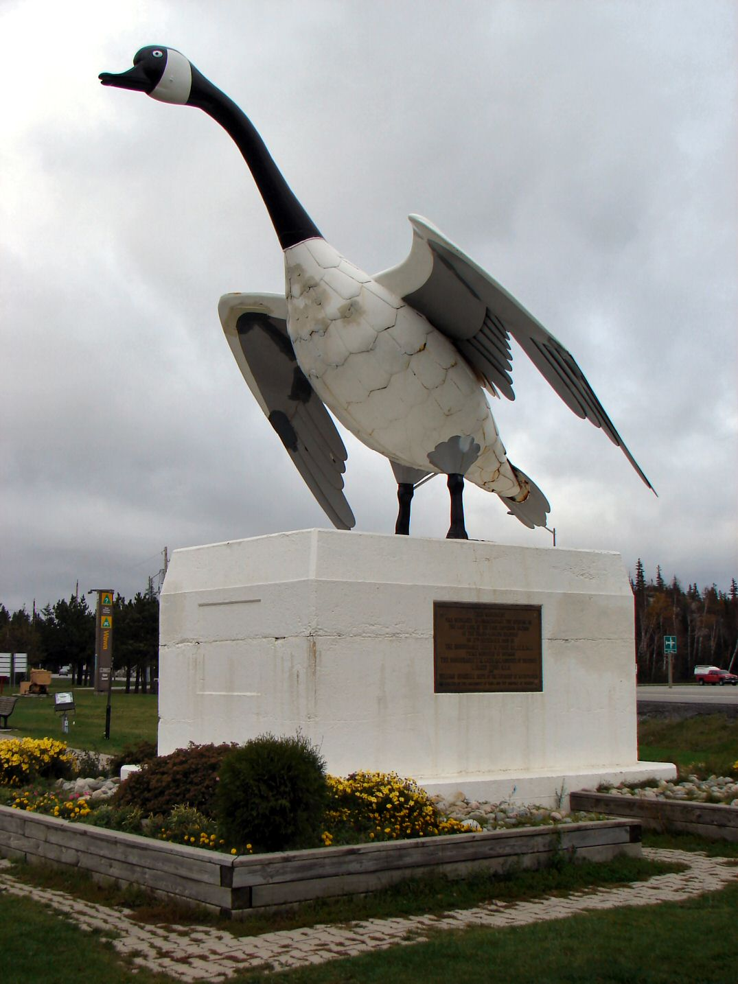 Wawa (Goose sculpture at Hwy 17), Algoma District, Ontario, Canada